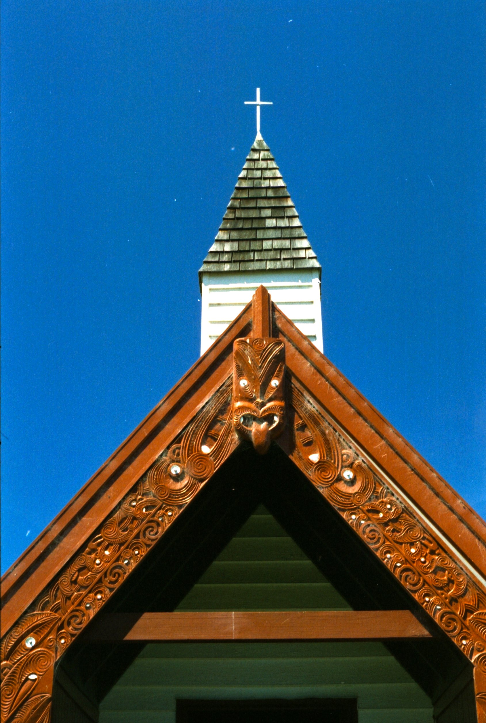 Te Whare Karakia o Ōnuku: Church near Onuku marae, Akaroa, Banks Peninsula, South Island, New Zealand. Across the road from the marae, the red and white historic Whare Karakia o Ōnuku gleams against the green hillside and harbour. The foundation stone for the whare karakia was laid in 1876 and the building officially opened in 1878 as the first non-denominational church in New Zealand. The opening was attended by many including Māori from iwi all over New Zealand. Intended as a place of worship for Māori and Pākehā, the church drew the two communities together. In 1939 the whare karakia was restored to its original state in time for an Akaroa Centenary Service in 1940 that was attended by over 1000 people. Infor from Christchurch City Libraries.